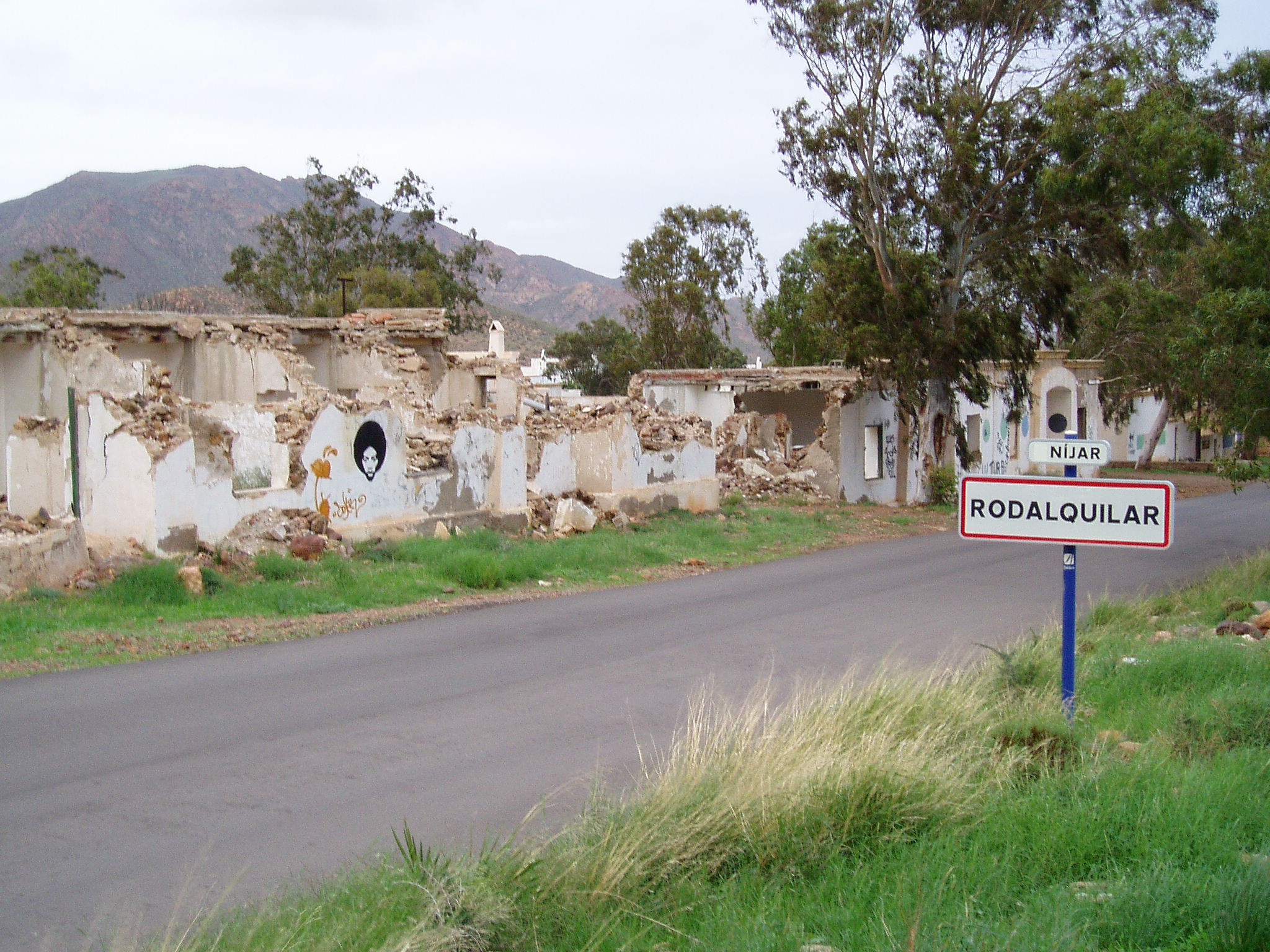 Ruins of former mining workers' homes in Rodalquilar in Andalusia, Spain